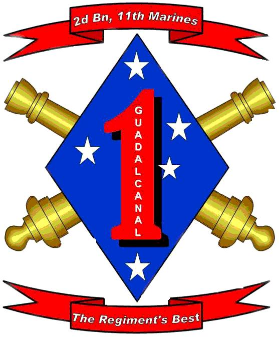 logo for 2nd Battalion 11th Marines